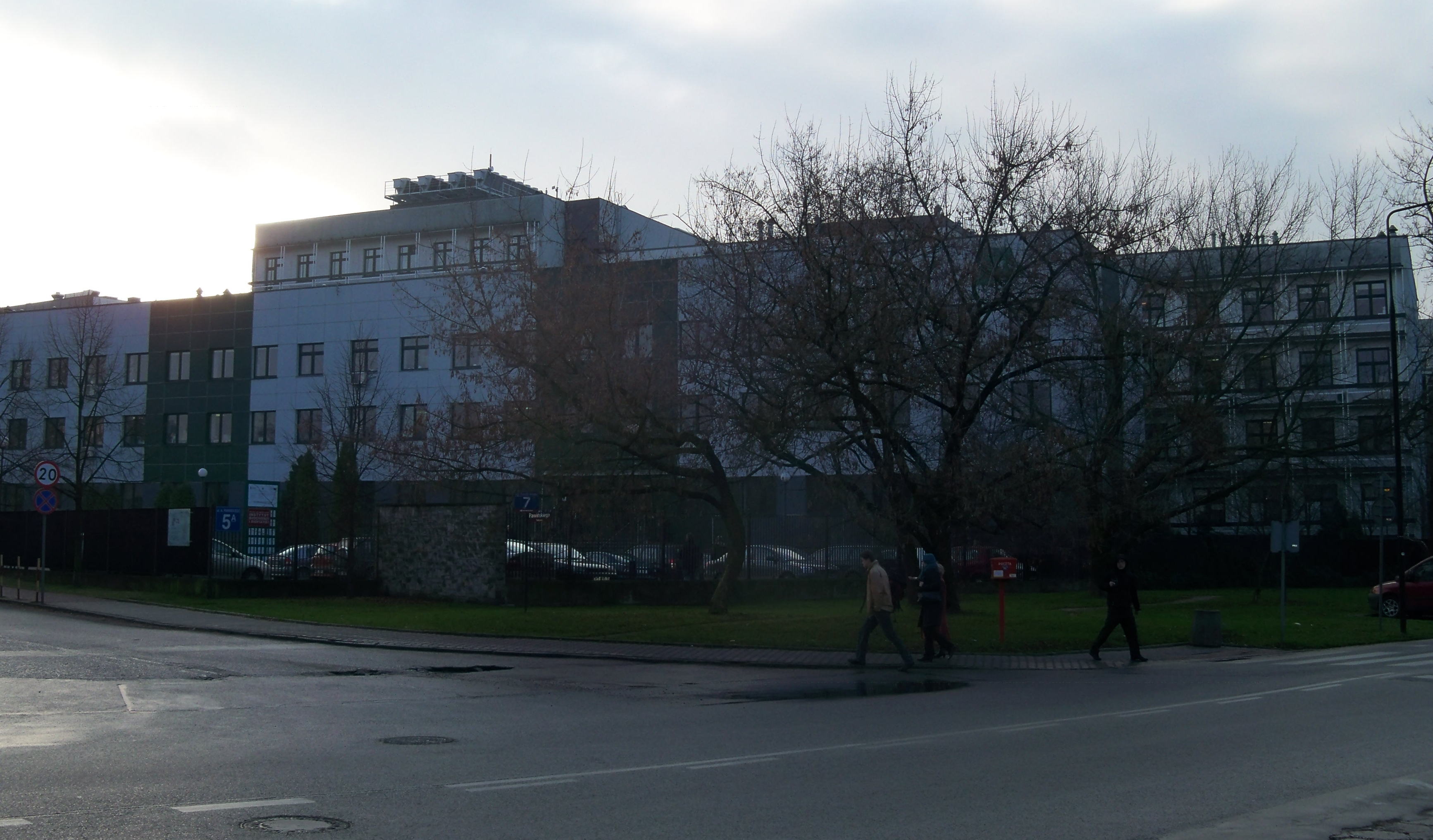 Institute of Biochemistry and Biophysics Polish Academy of Sciences, Warsaw.